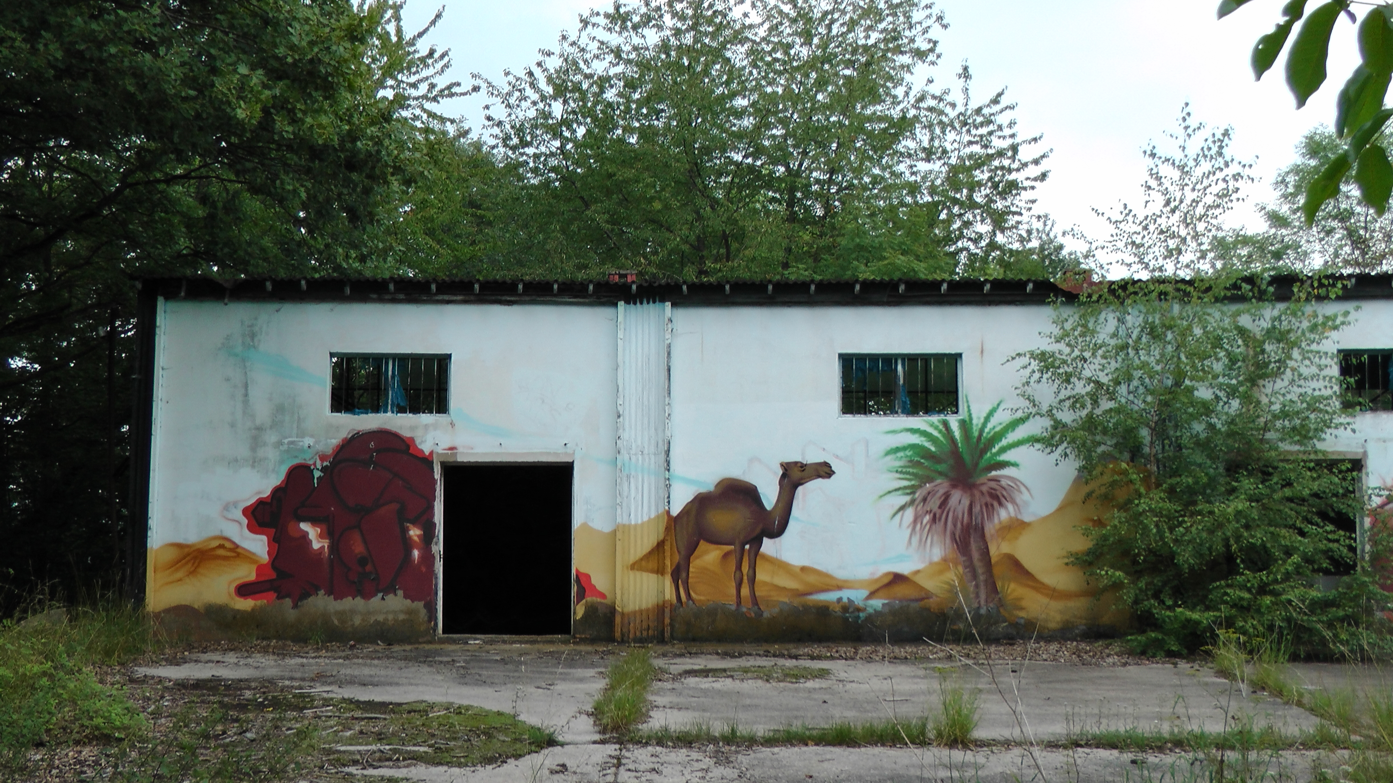 Former french military trainig area in Trier (Germany)